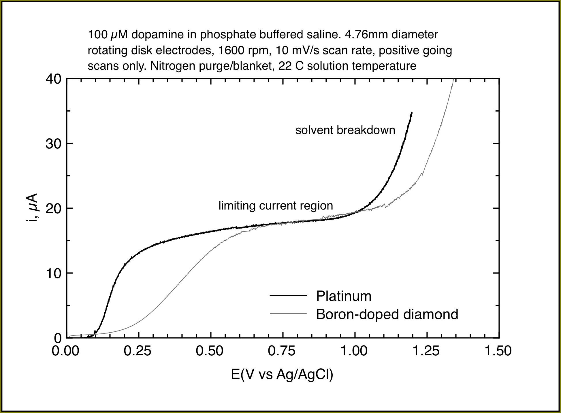 linear sweep voltammogram of 100 µM dopamine in phosphate buffered saline. 4.76mm diameter rotating disk electrodes, 1600 rpm, 10 mV/s scan rate, positive going scans only. Nitrogen purge/blanket, 22 C solution temperature. Adapted from my PhD thesis, Case Western Reserve University, 2001, figure 4.1